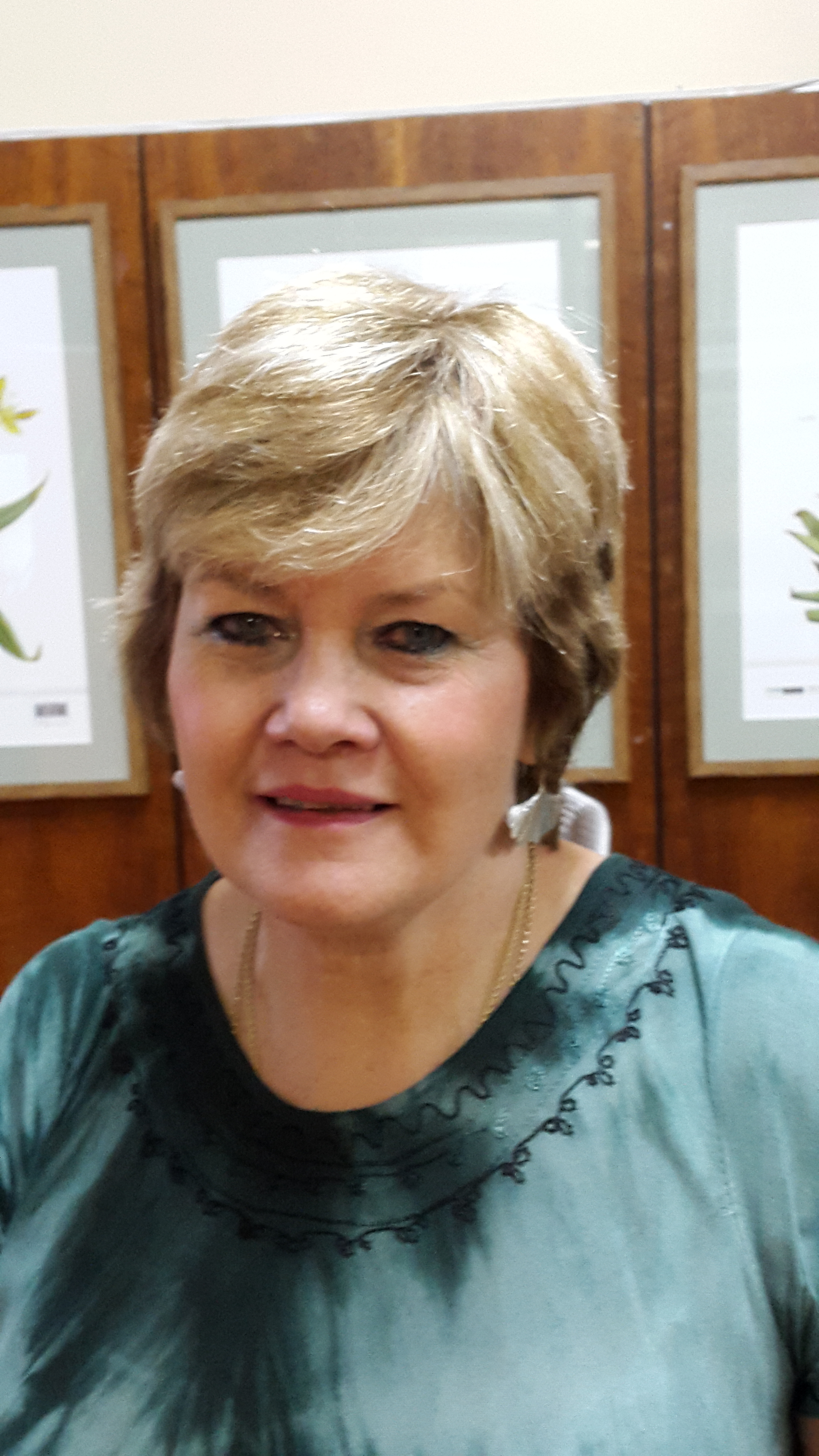 Gillian Condy - South African botanical illustrator